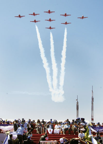 Surya Kiran Aerobatic Team, Air Force Station Bidar